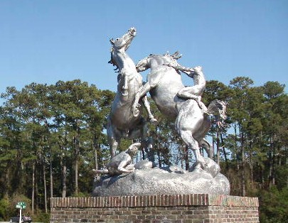 Statue by Anna Hyatt Huntington